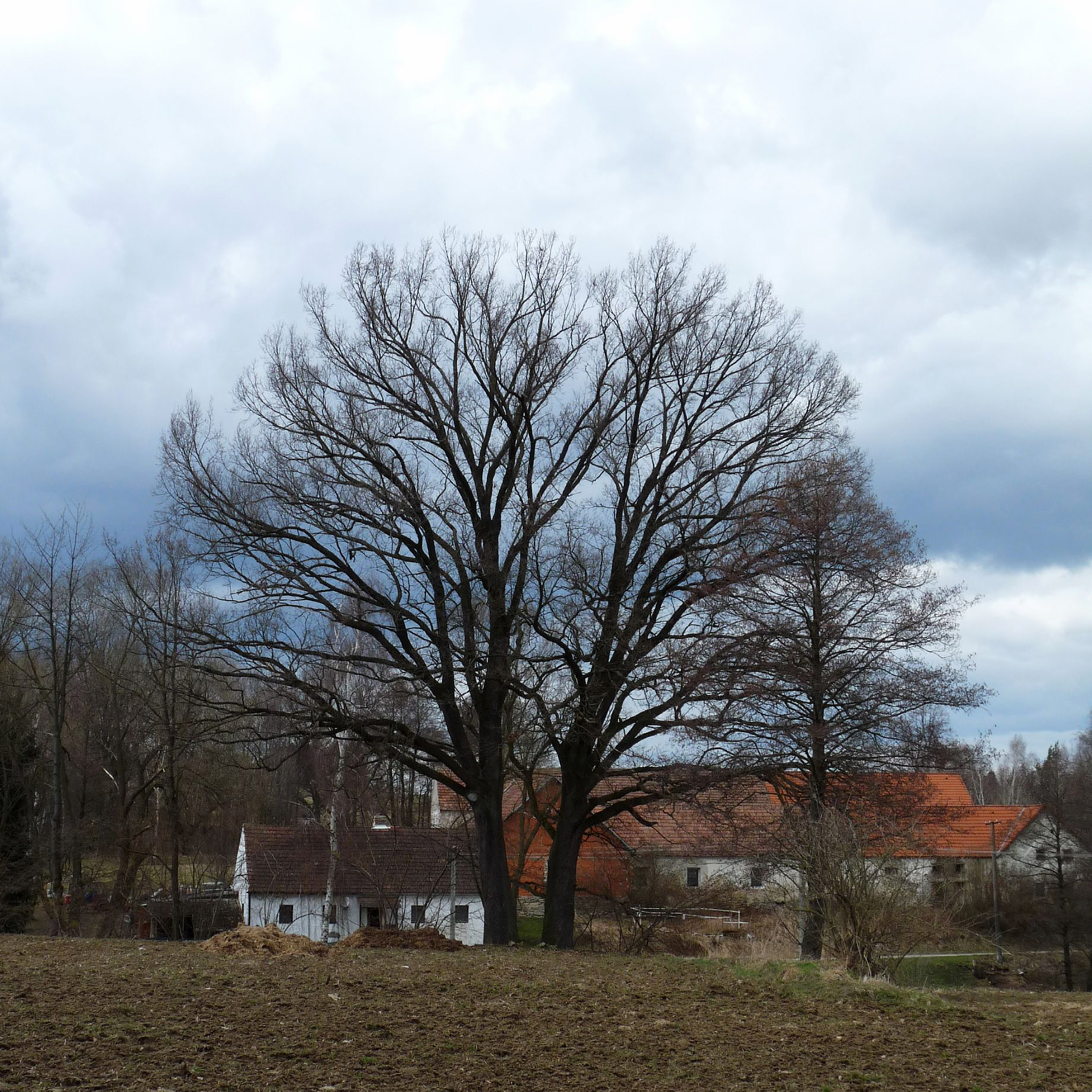 Oaks (Quercus robur), 2 famous trees in the village of Klažary in České Budějovice District, South Bohemian Region, Czech Republic.